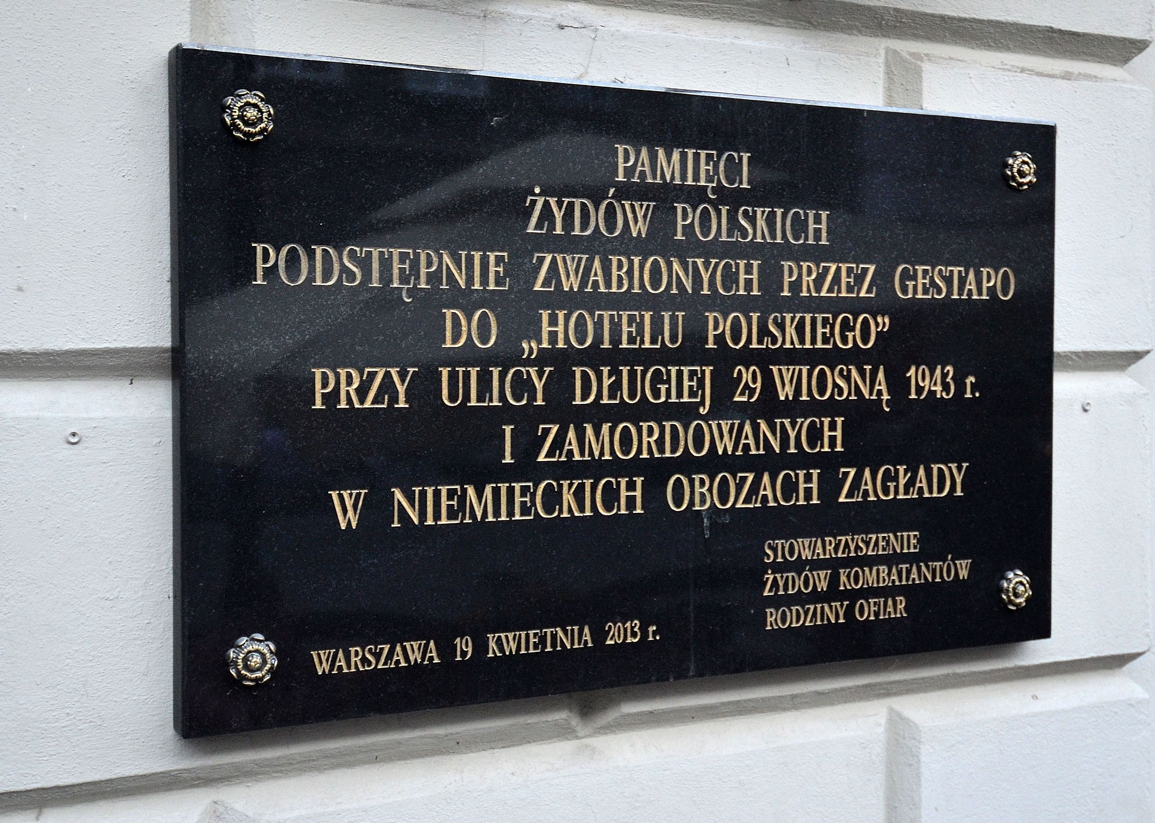 Commemorative plaque at 29 Długa Street